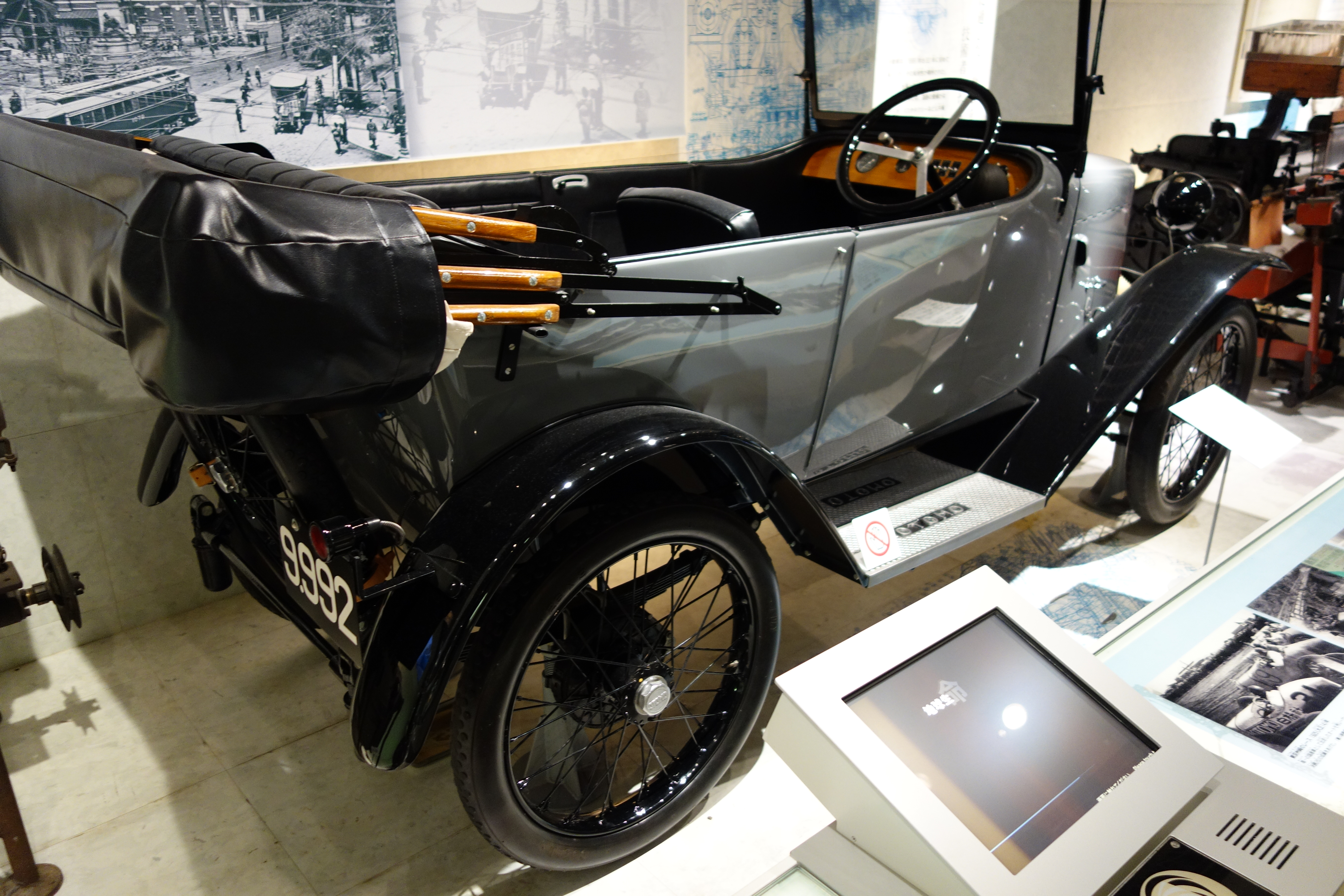 Exhibit in the National Museum of Nature and Science, Tokyo, Japan.